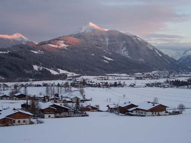 Flachau (Salzburg) with Reitdorf. mountains left to right: Strimskogel 2139m, Lackenkogel 2051m with Scharwandspitze 1918